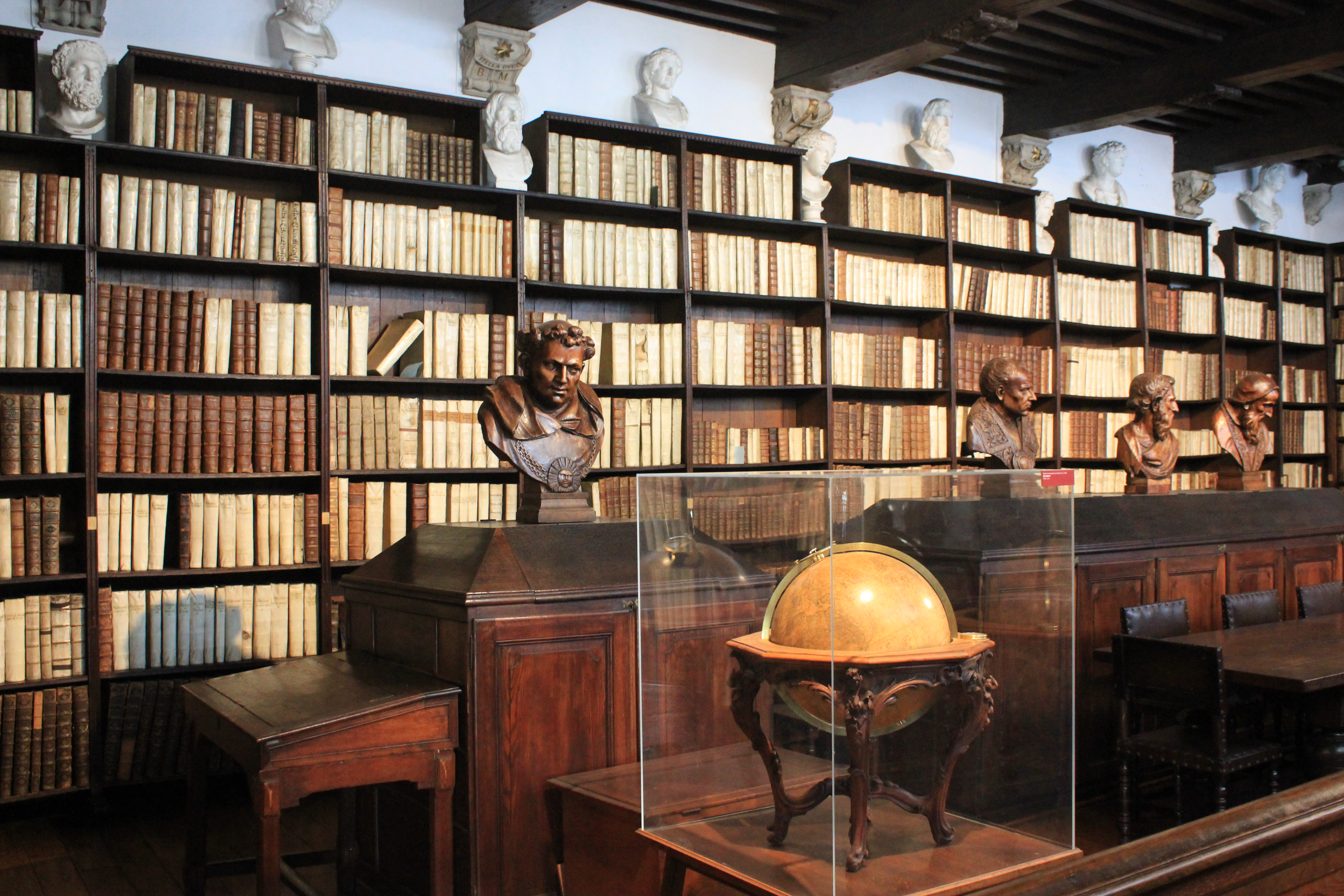 Ancient collection of local typed books